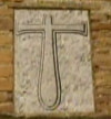 Pompeii Cross found in the bakery of Paquius Proculus (79AD)